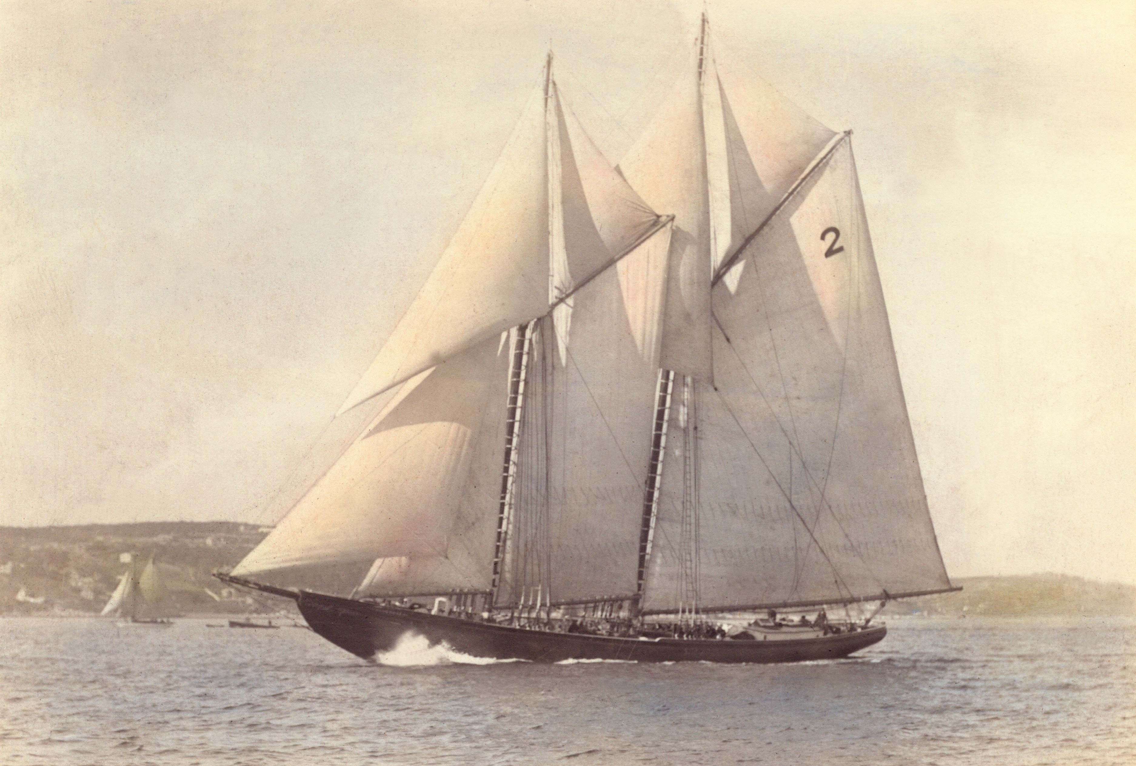 The Bluenose schooner at the 1921 Nova Scotia Elimination Trials, held off Halifax in October.